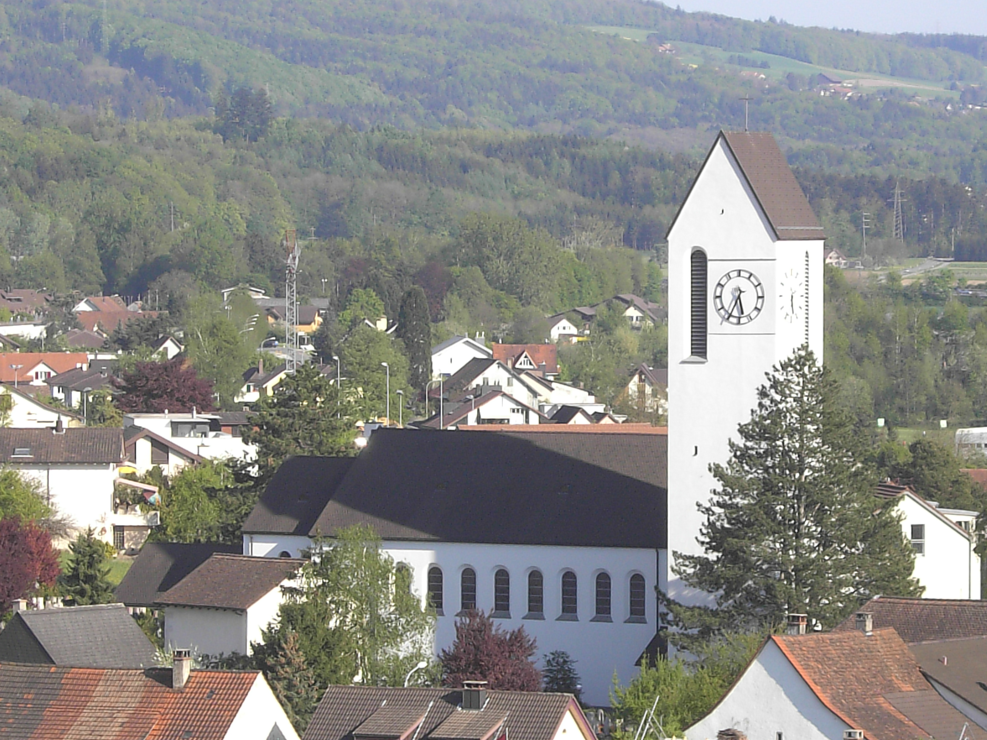 Birmenstorf AG, Switzerland, rom.-cath. Church